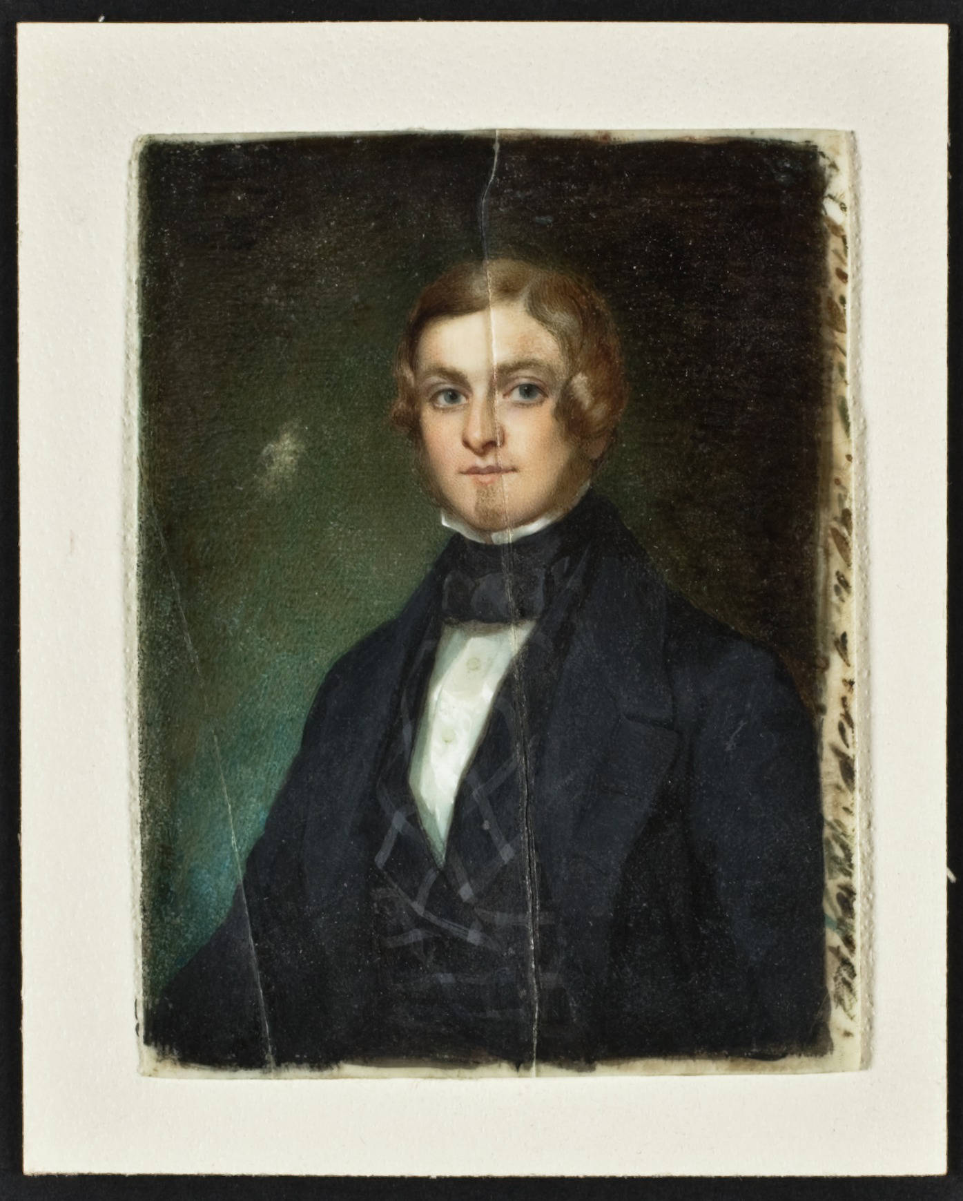 Artist unidentified; Reproduced in, Ruxton of the Rockies. Norman, University of Oklahoma Press, (1950); In leather case of the period.